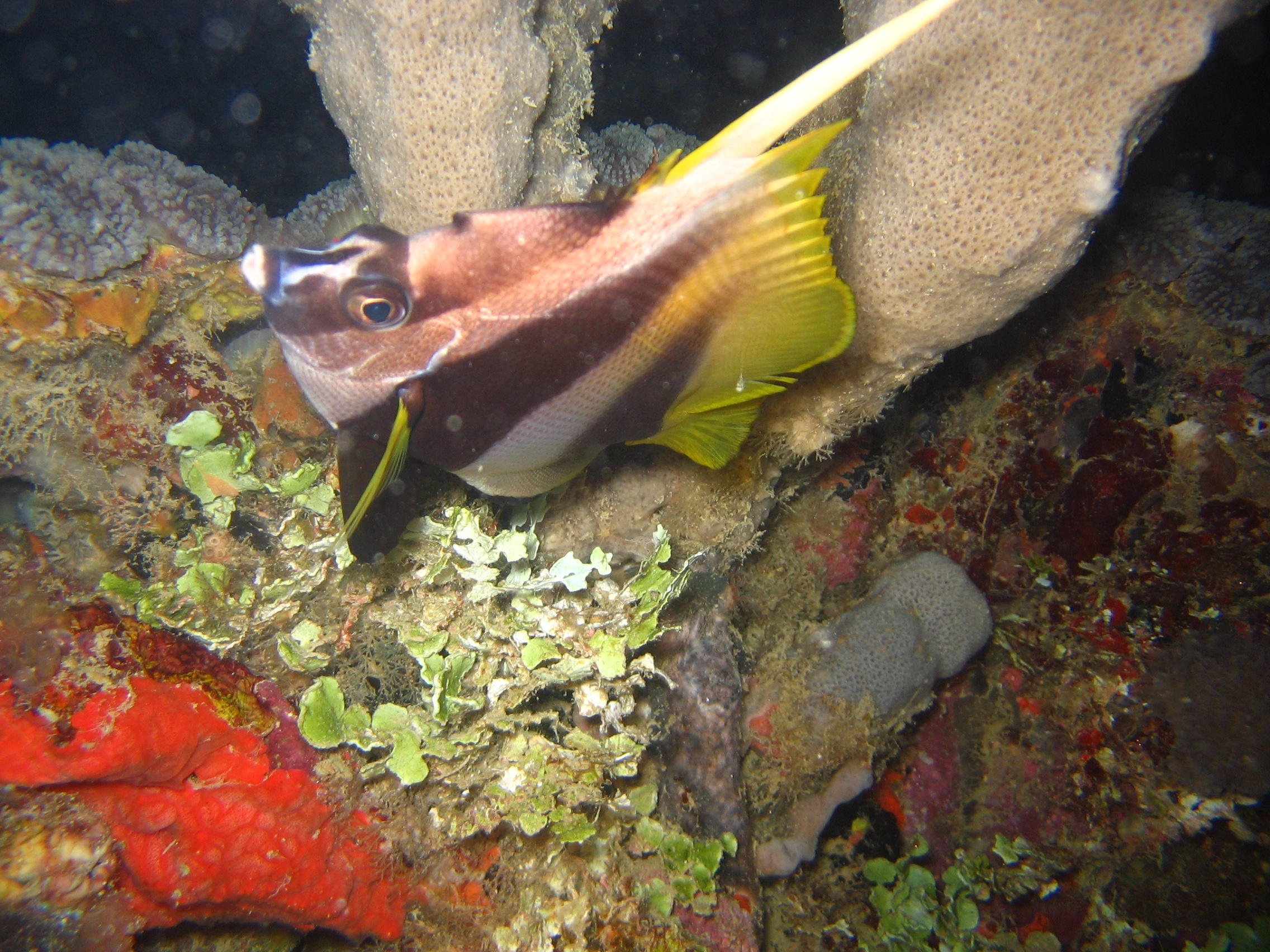 Masked bannerfish (Heniochus monoceros). Coral Kingdom Collection. Federated States of Micronesia, Chuuk.